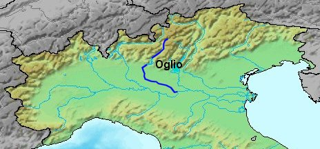 Location of Oglio river - Italy